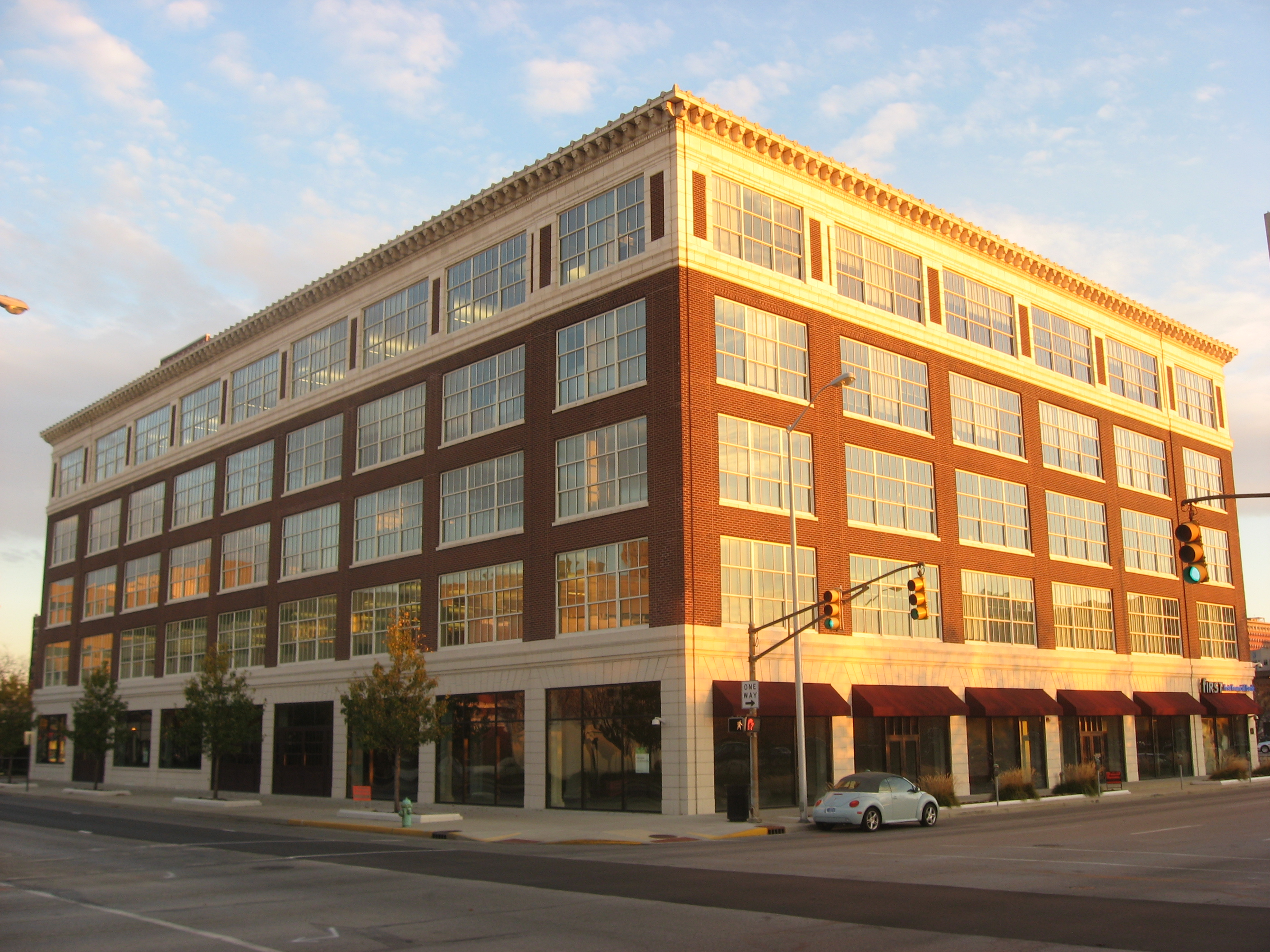 Front and northern side of the Gibson Company Building, located at 433-447 N. Capitol Avenue in Indianapolis, Indiana, United States. Built in 1917, it is listed on the National Register of Historic Places.